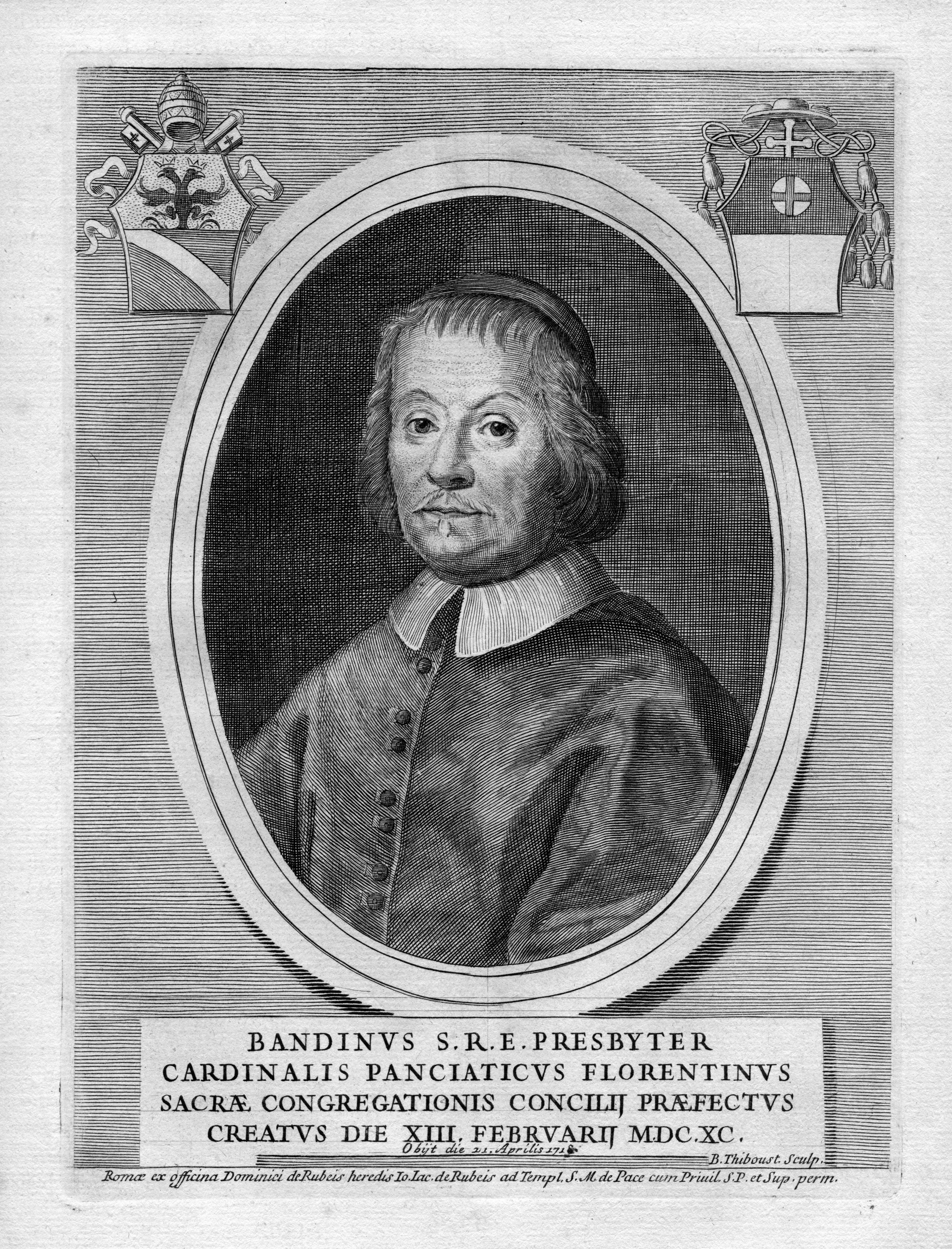 Santo Spirito di Sassia